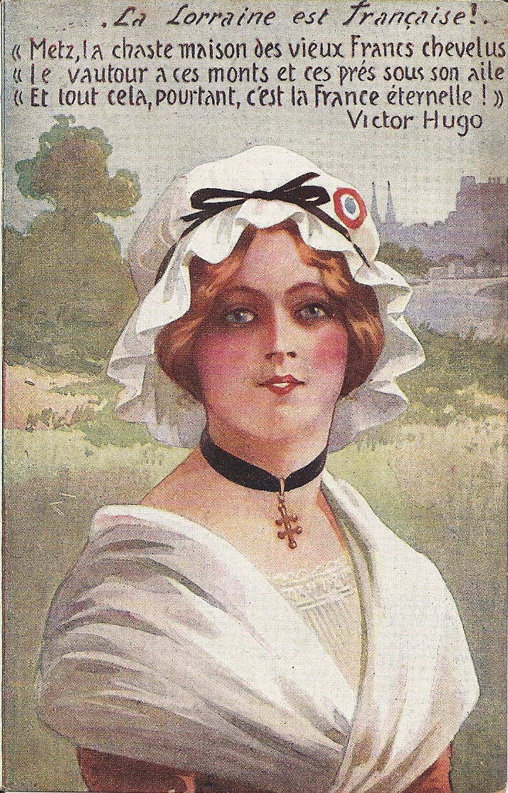 Old postcard of anti-German propaganda for the return of the region of Lorraine to France.